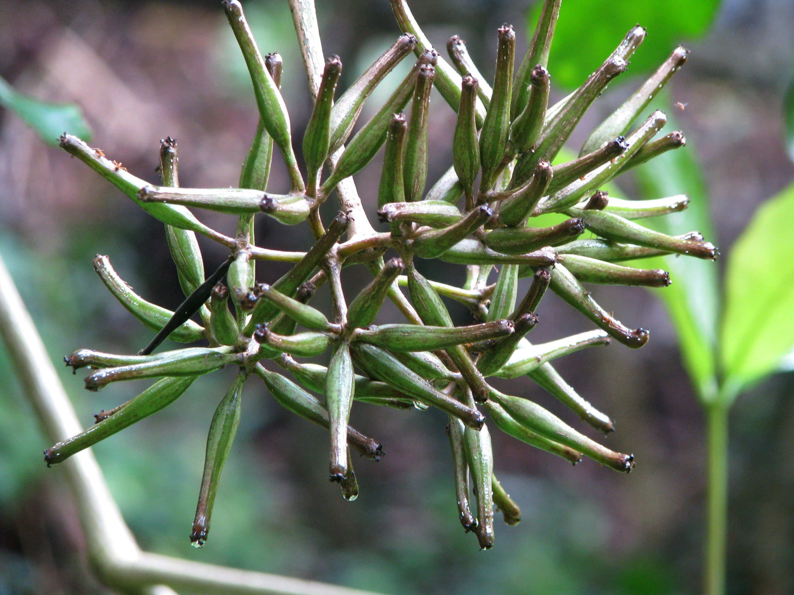 Pāpala kēpau or Umbrella catchbird tree Nyctaginaceae Indigenous to the Hawaiian Islands Oʻahu (Cultivated) NPH00006